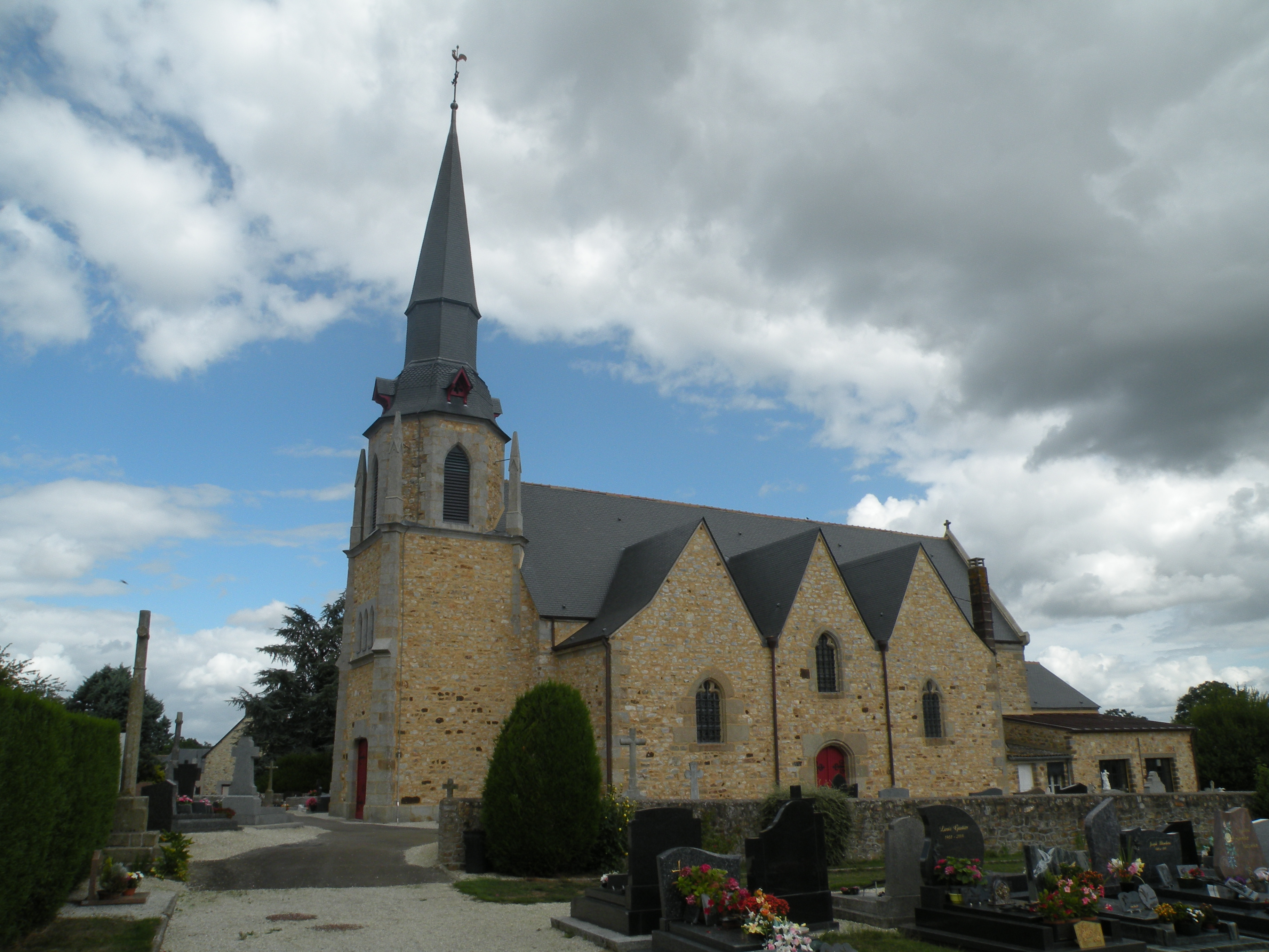 Church of Combourtillé.